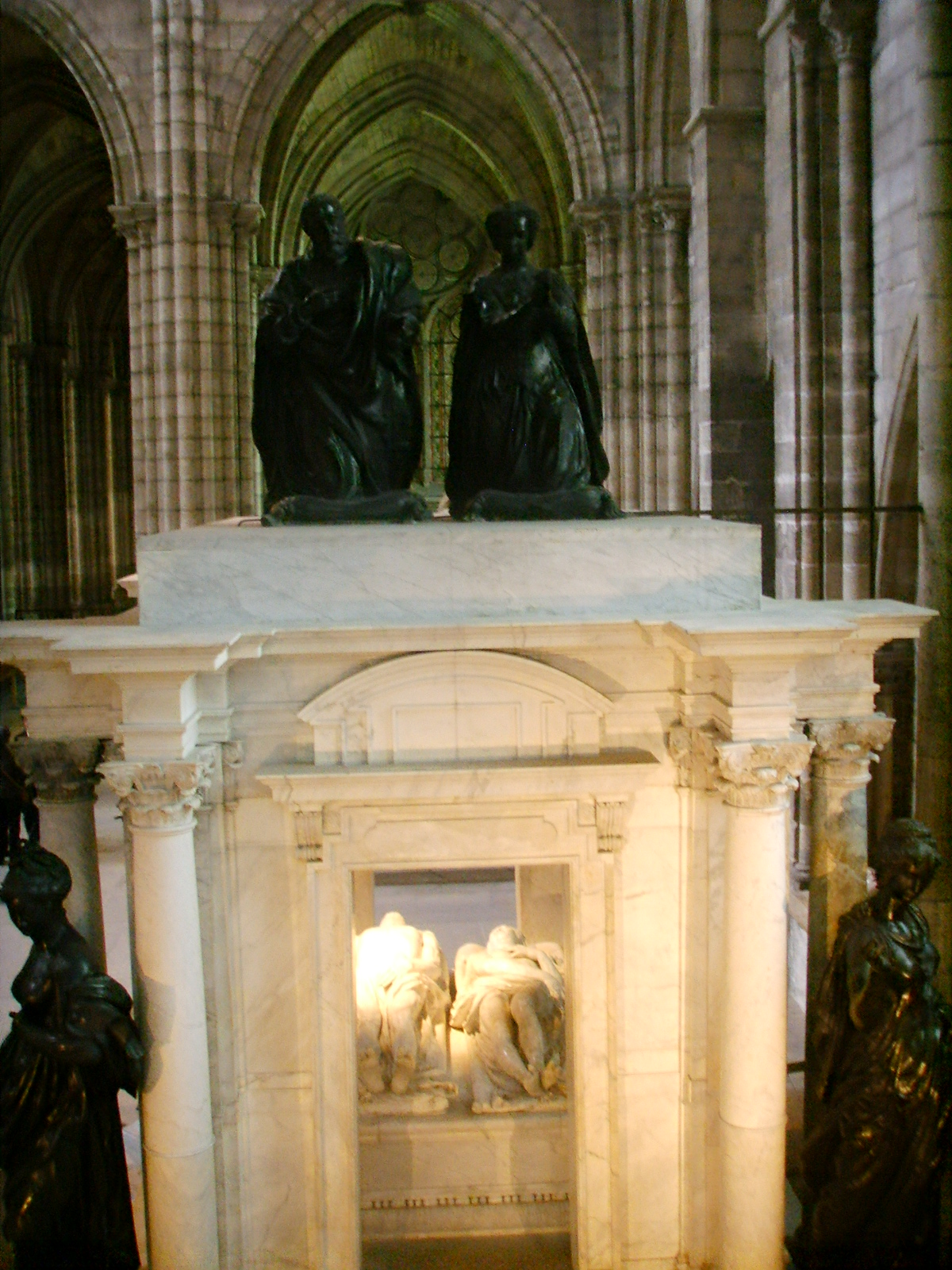 Tomb of Henry II of France and Catherine de' Medici